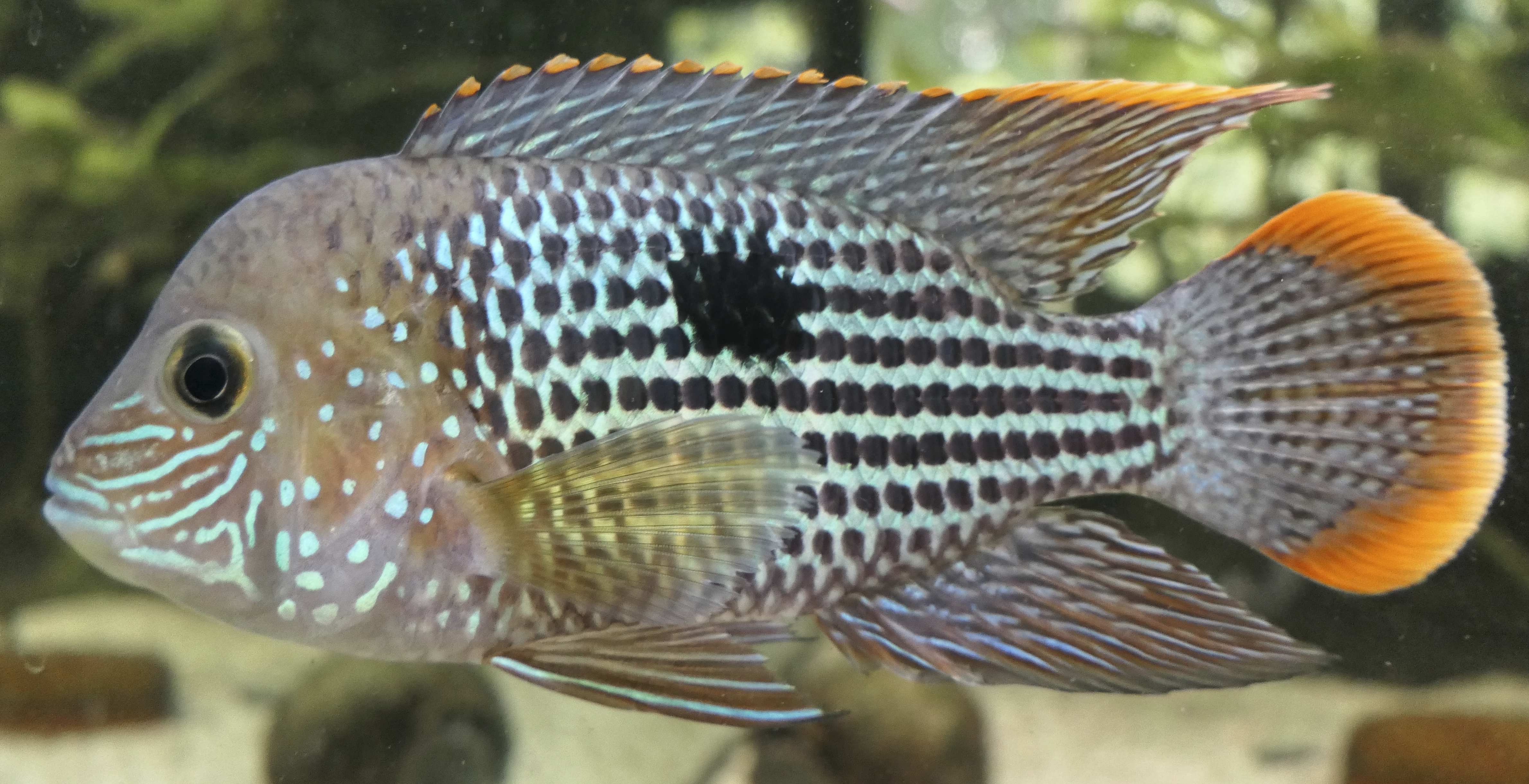 A not full grown, but adult male green terror, about 10cm length.